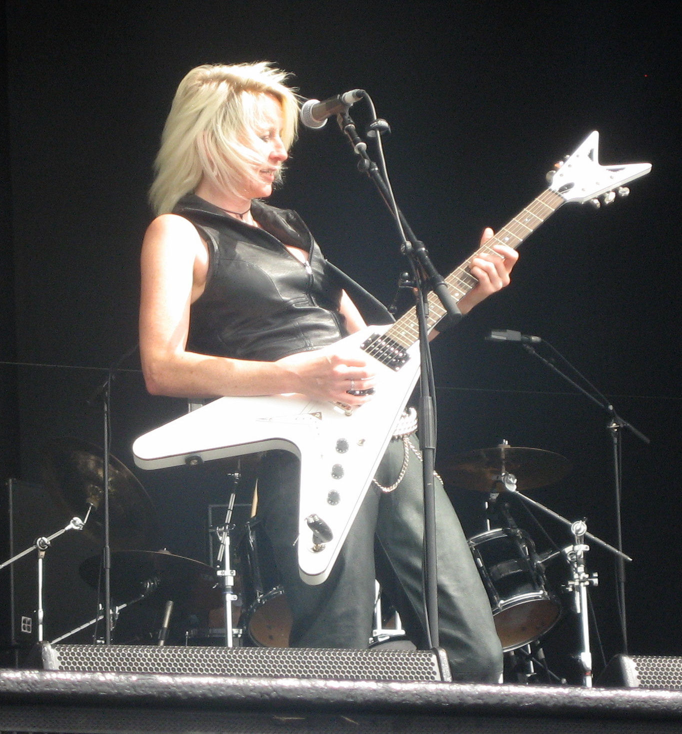 Jackie Chambers of the heavy metal band Girlschool at Bloodstock Open Air 2009